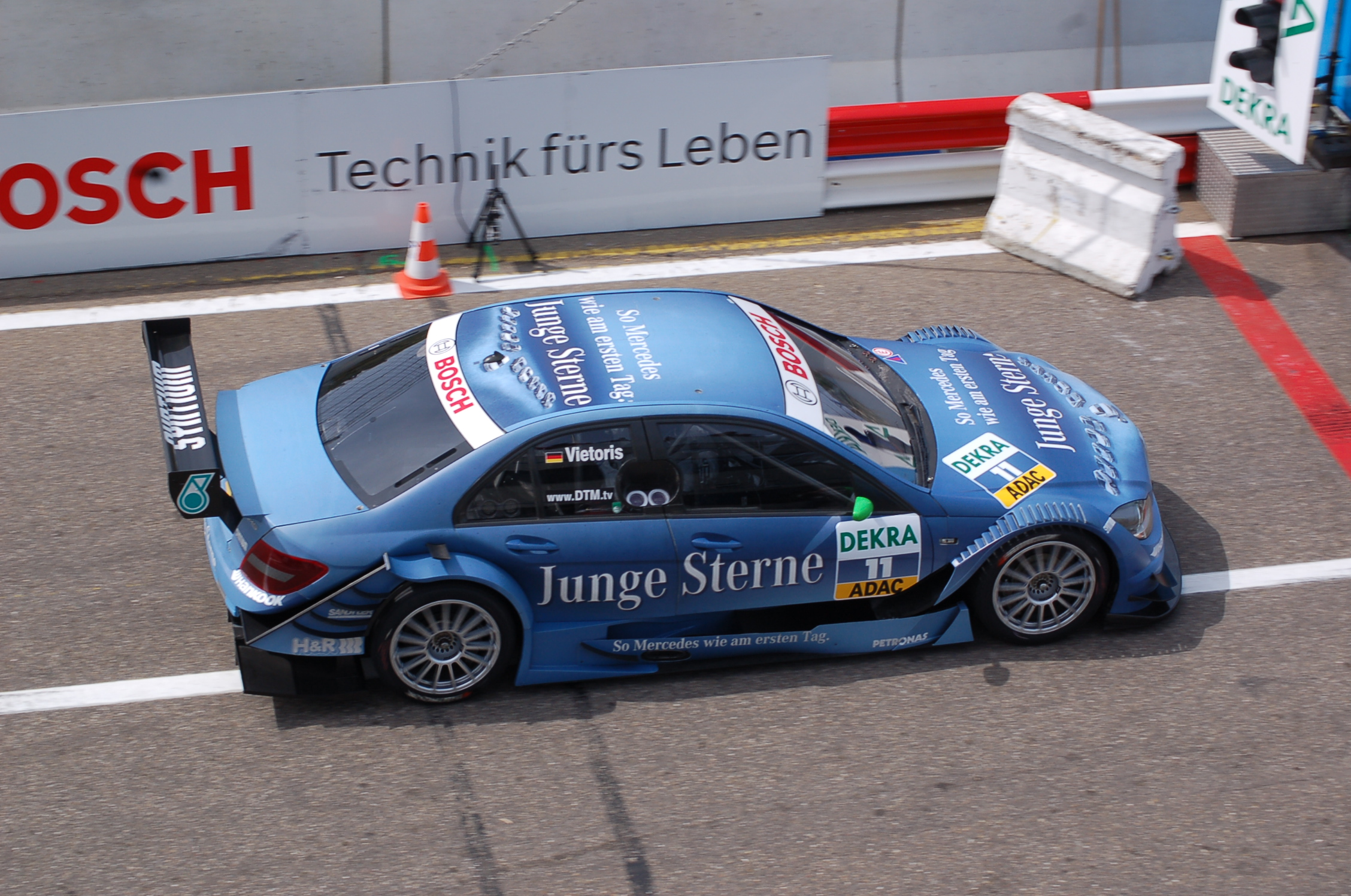 Christian Vietoris' DTM-Car 2011